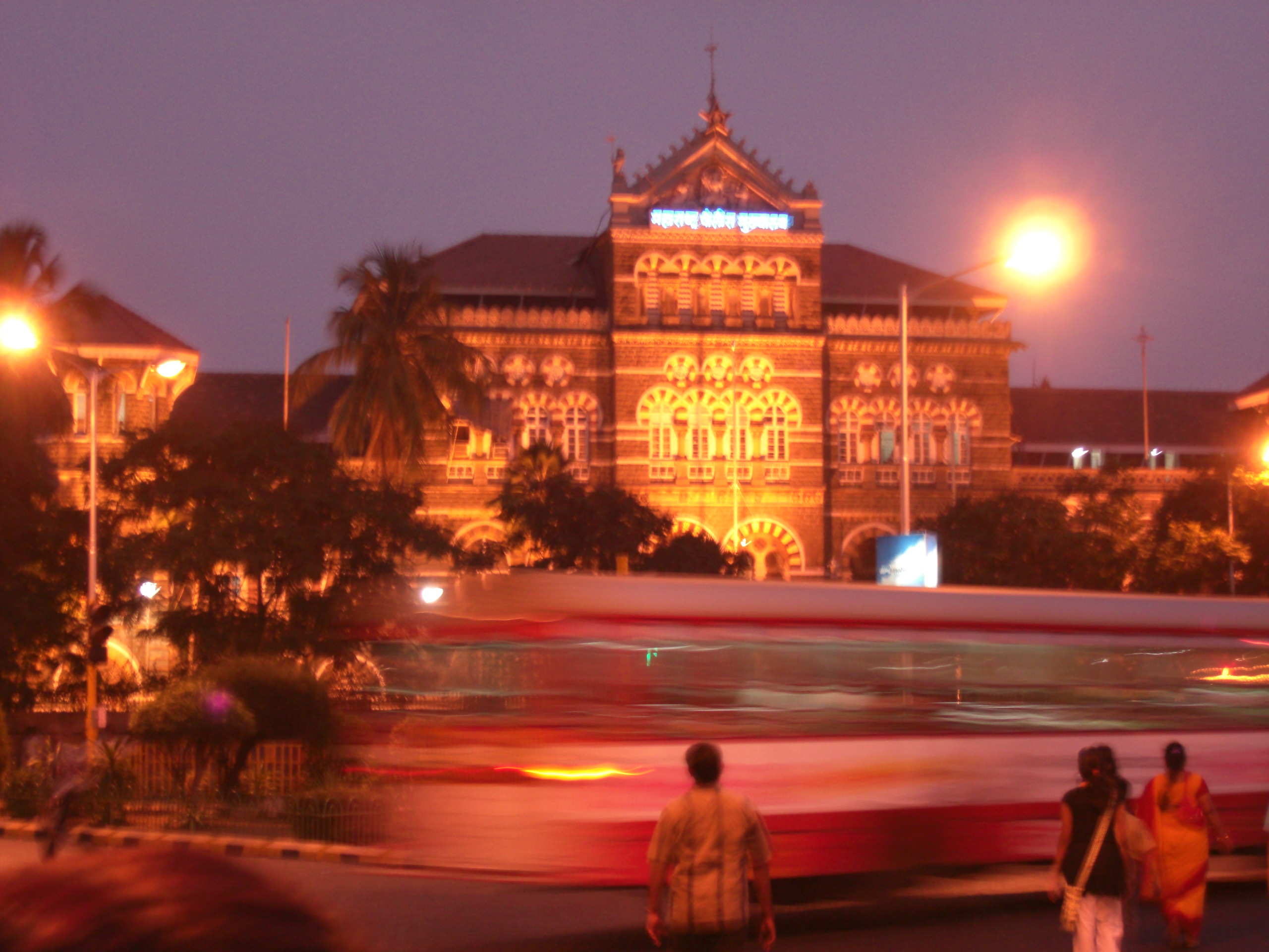 Maharashtra police headquarters fort